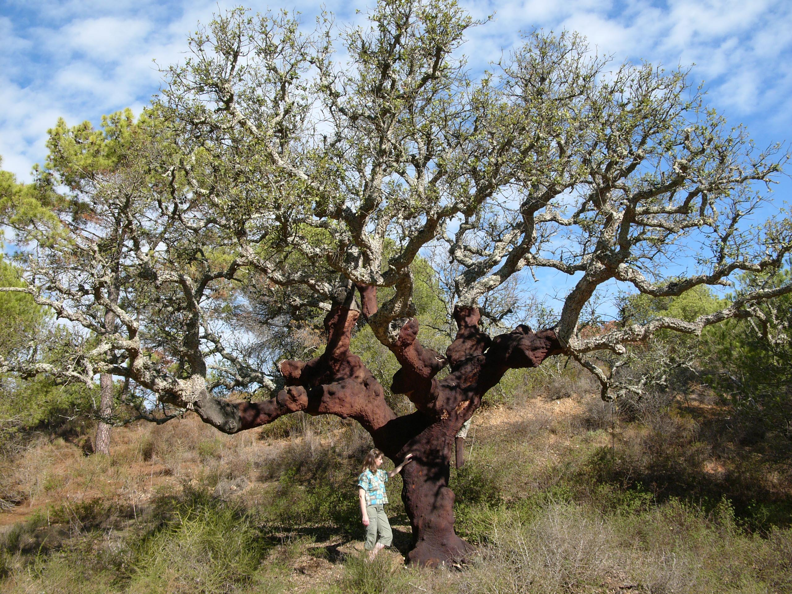 Photo of Quercus suber from Algarve, Portugal (scale: Margret Grobe)